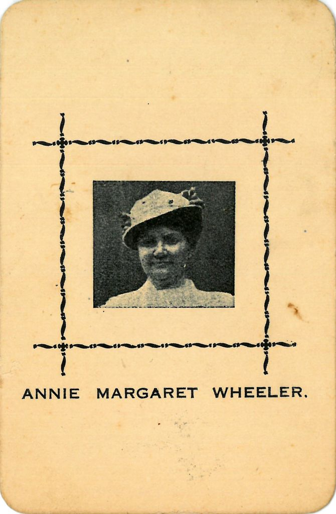 Visiting card; b&w; 10 x 6 cm.